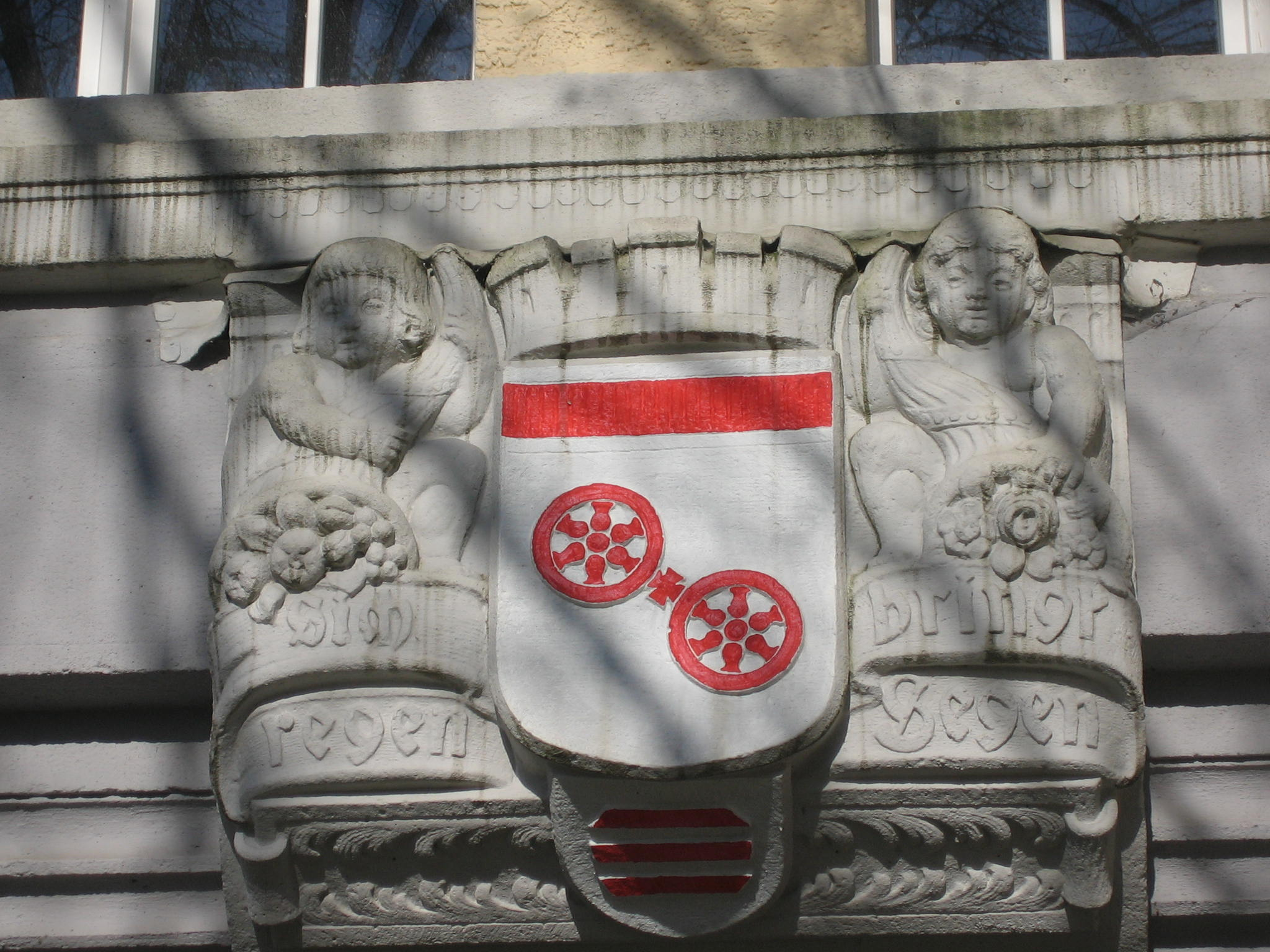 Bas-relief “wheel of Mainz with children and cornucopia”, at Pestalozzi school Mombach, carved by Ludwig Lipp senior, Mainz, 1909.